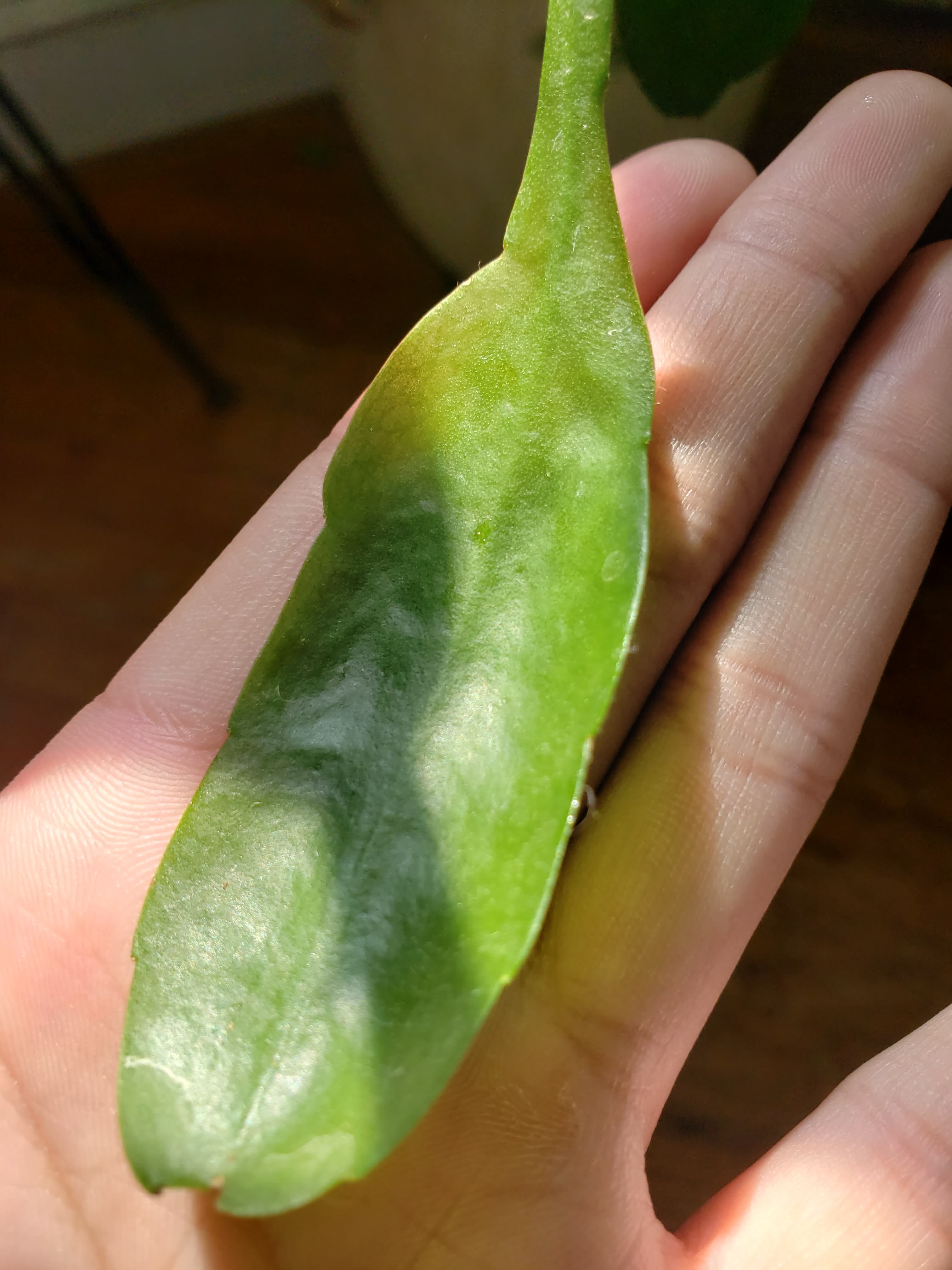 This is an image of the front leaf of the Epiphyllum oxypetalum.